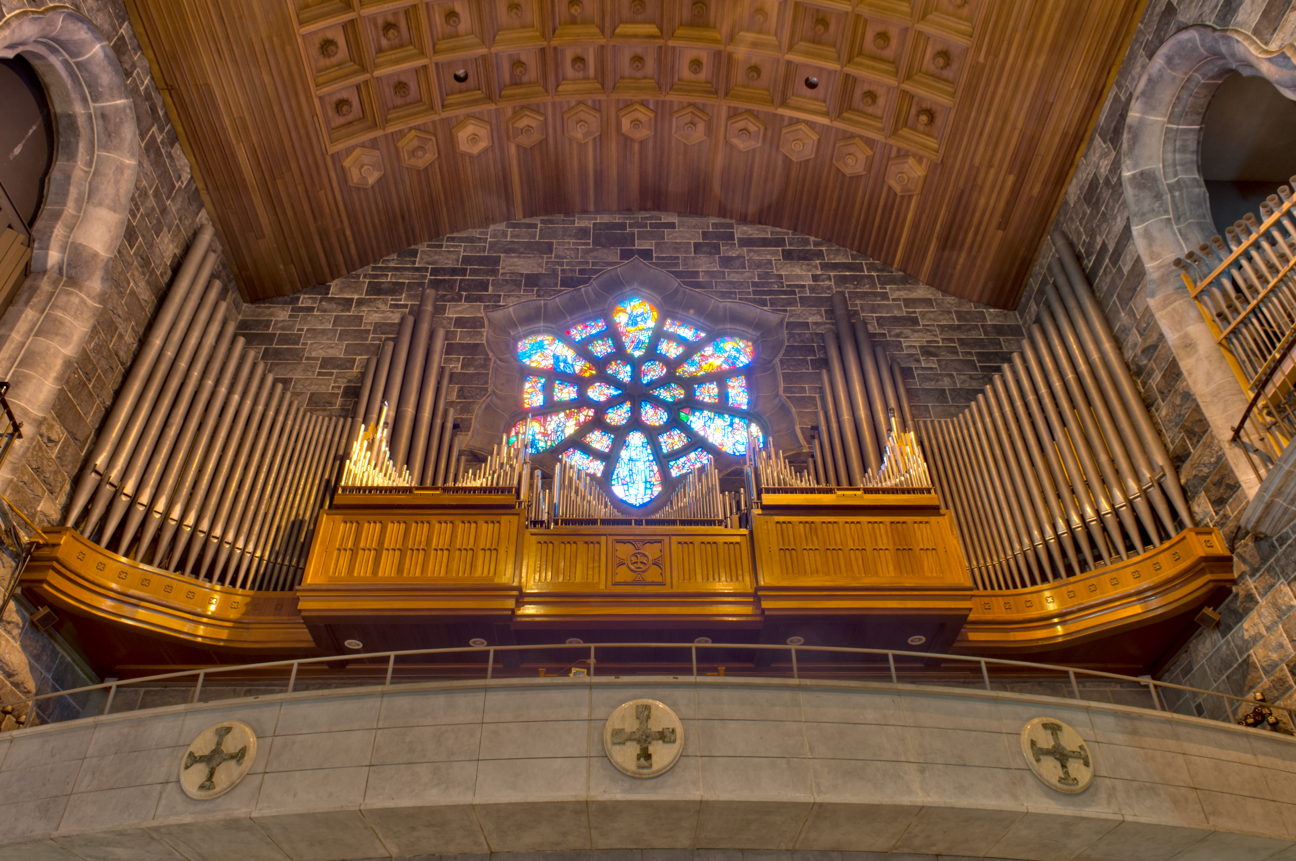 Visited the Cathedral again and had to take some pictures. Went with f/8 this time, 3 exposures at -2, 0 and +2 ev. Merged and processed in Photoshop CS6 Beta. Aimed for the natural look so set most parameters to quite conservative values. Quite happy with the noise-free results. Tonemapping parameters: Local Adaptation Gamma: 0.48 Radius: 420px Strength: 1.48 Shadows: -66 Highlights: 26 Saturation: 15 Some curves adjustment and a Levels layer.